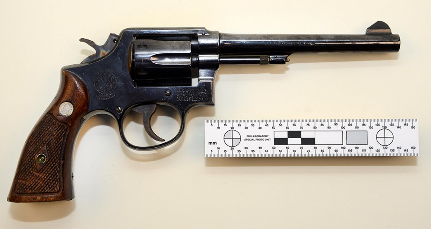 When he became a fugitive in 1976, Bishop likely had with him a Smith and Wesson .38 revolver he inherited from his father. The serial number of the weapon is C981967. Anyone with information about this handgun might help lead investigators to Bishop.